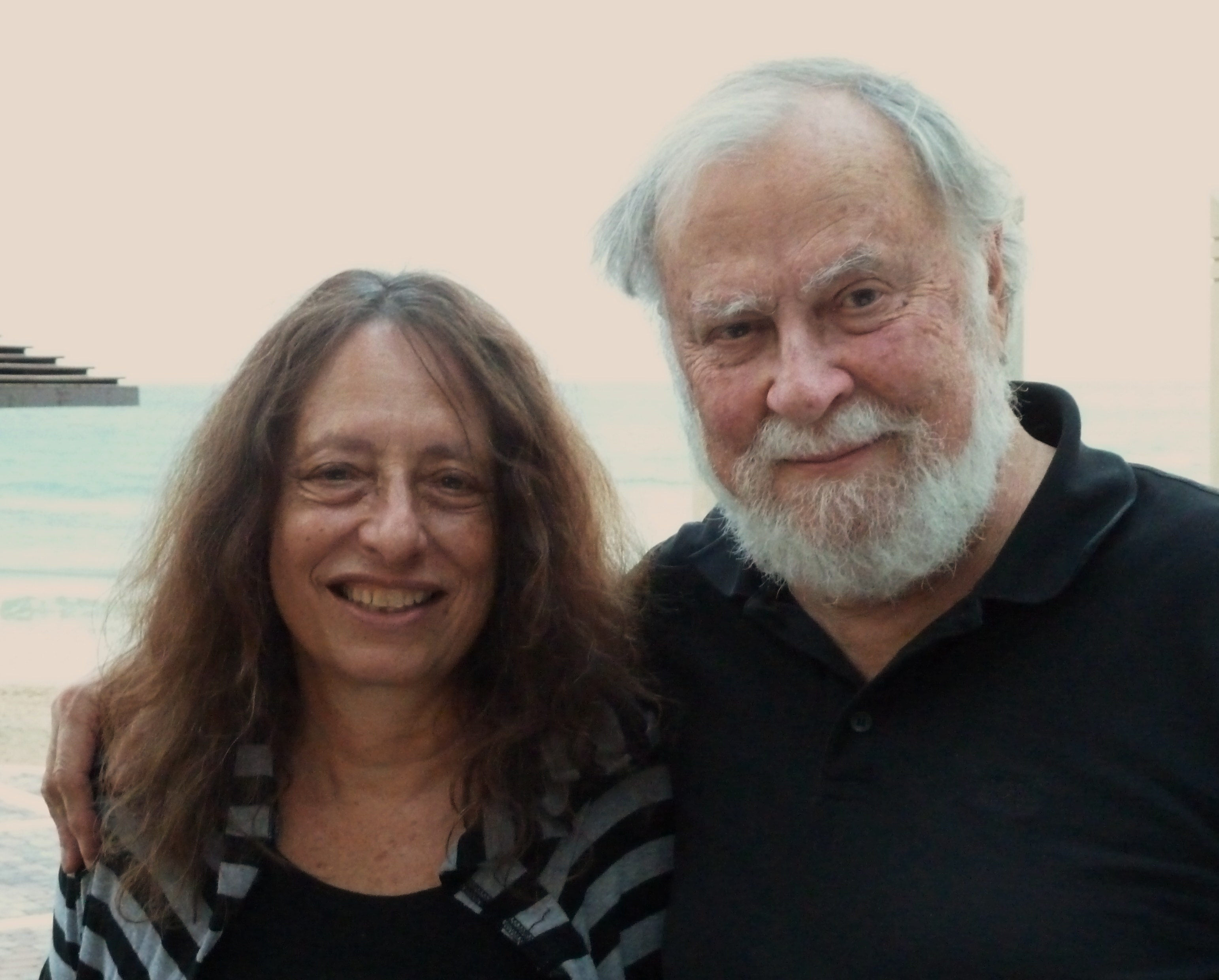 Carol and James Gilligan, at Haifa Beach